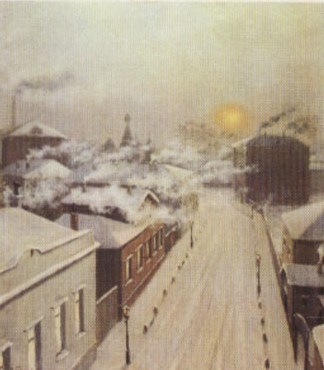 Street in Zamoskvorechie